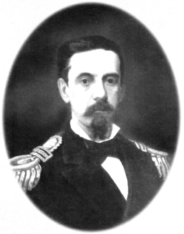 Luis Germán Astete Fernández de Paredes (1832-1883). Captain of the Navy of Peru, Hero of the War of the Pacific.